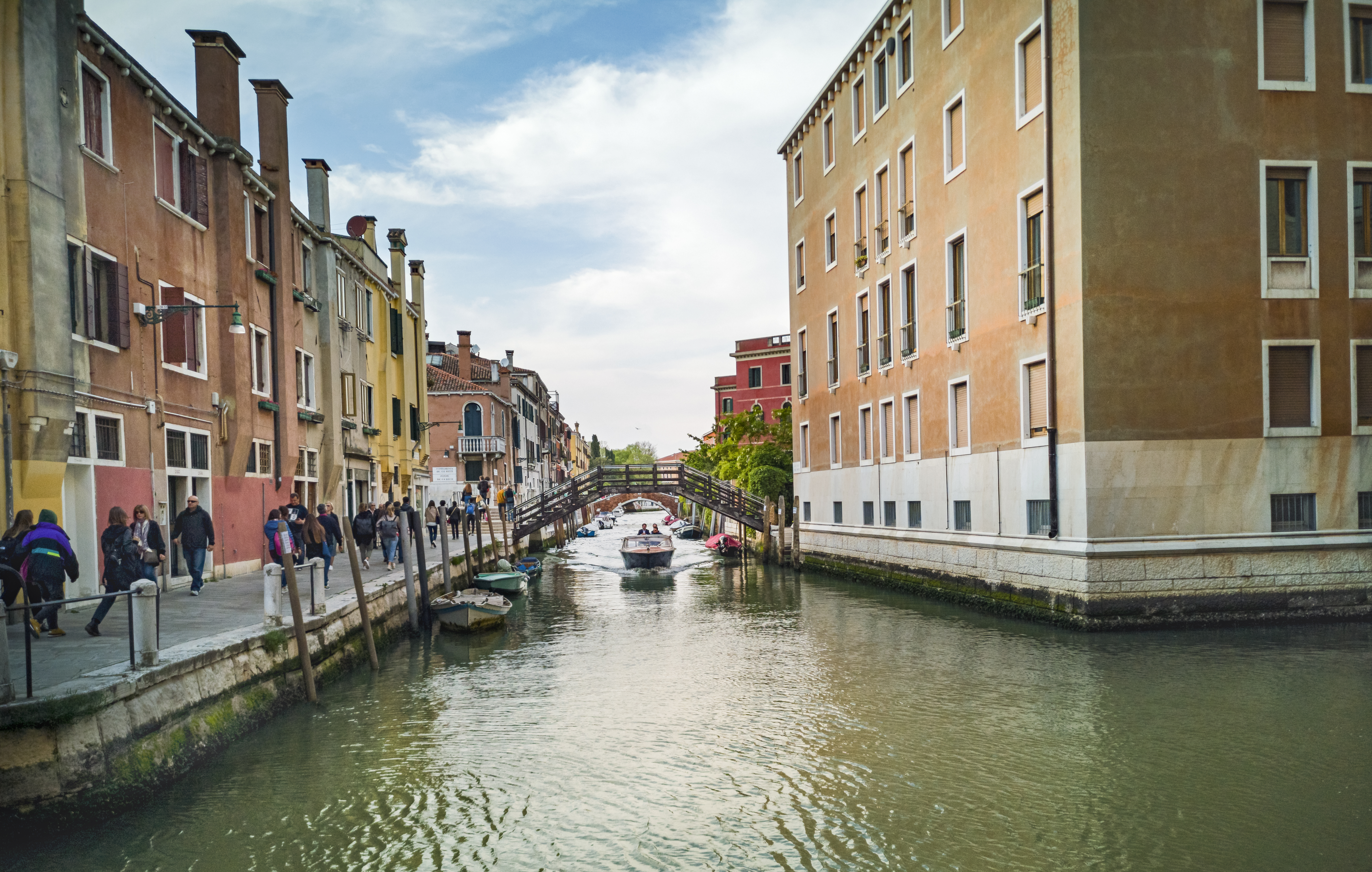 The entire Rio dei Tre Ponti in Venice. View at the conjunction between the rio del Tentor on the left and the Rio de le Bote on the right.